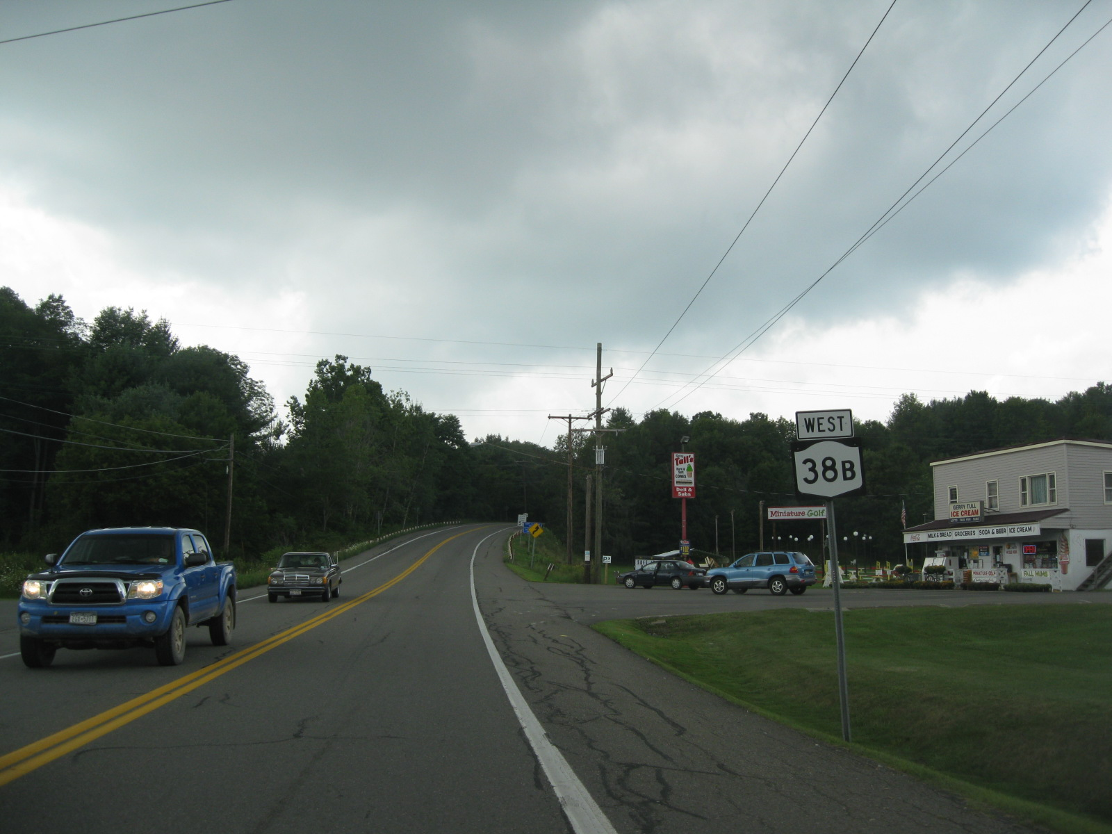 New York State Route 38B heading westbound through the community of Union Center, New York.